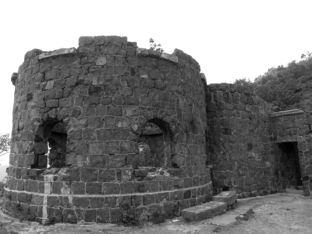 Mau Wu Observation Post